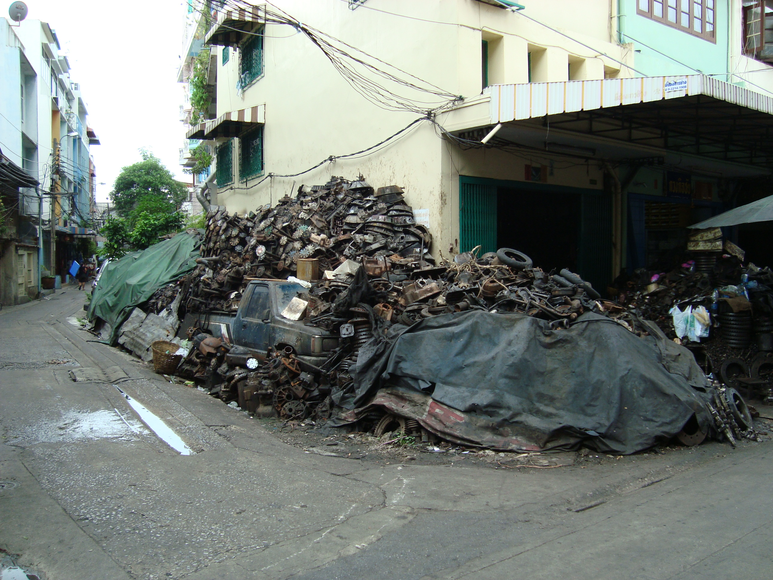 Sieng Kong Zone (car parts market in Soi Wanit 2) in Samphanthawong District, Bangkok, Thailand.